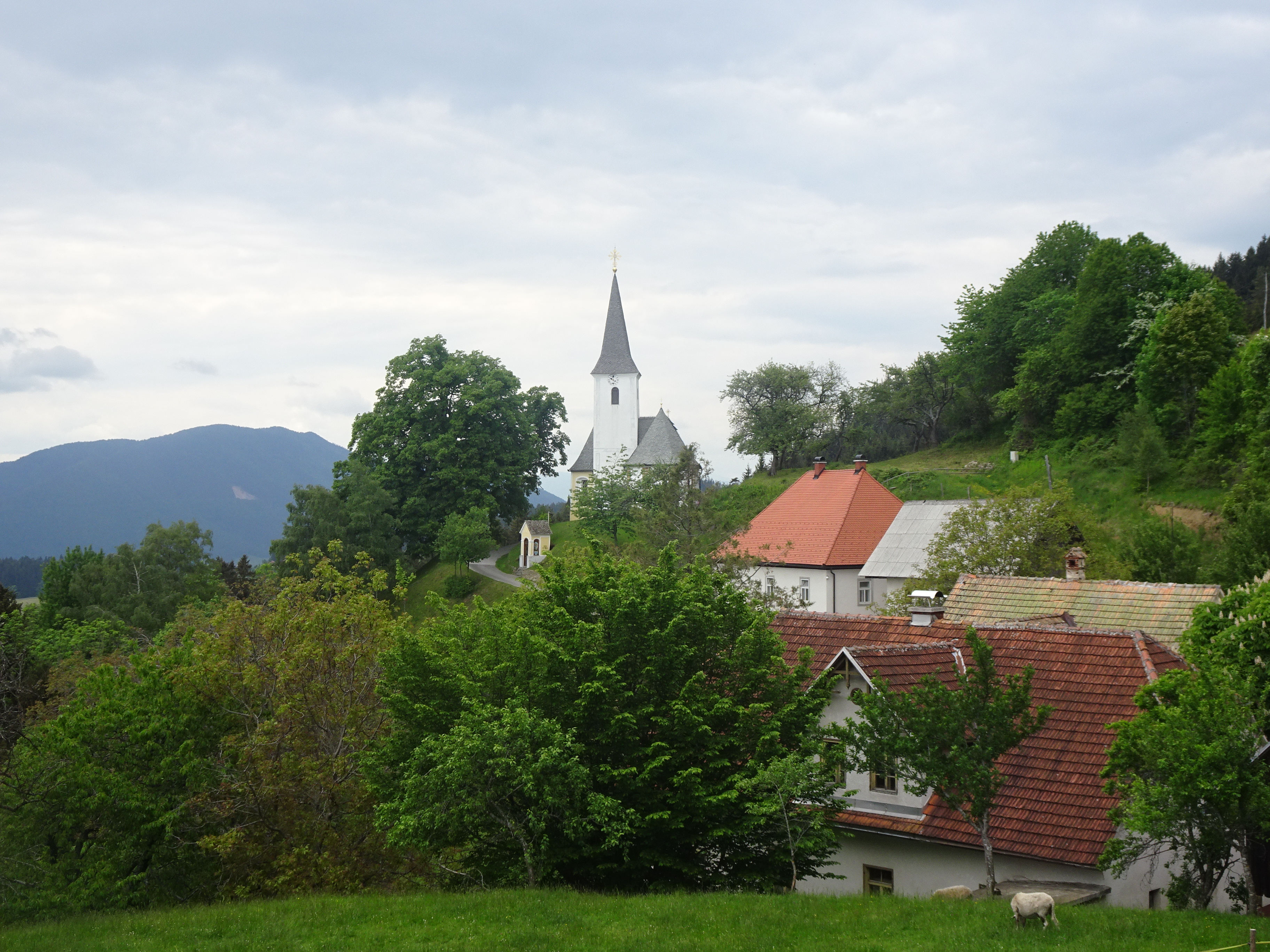 St. Lambertus' Parish Church, Skomarje, Slovenia